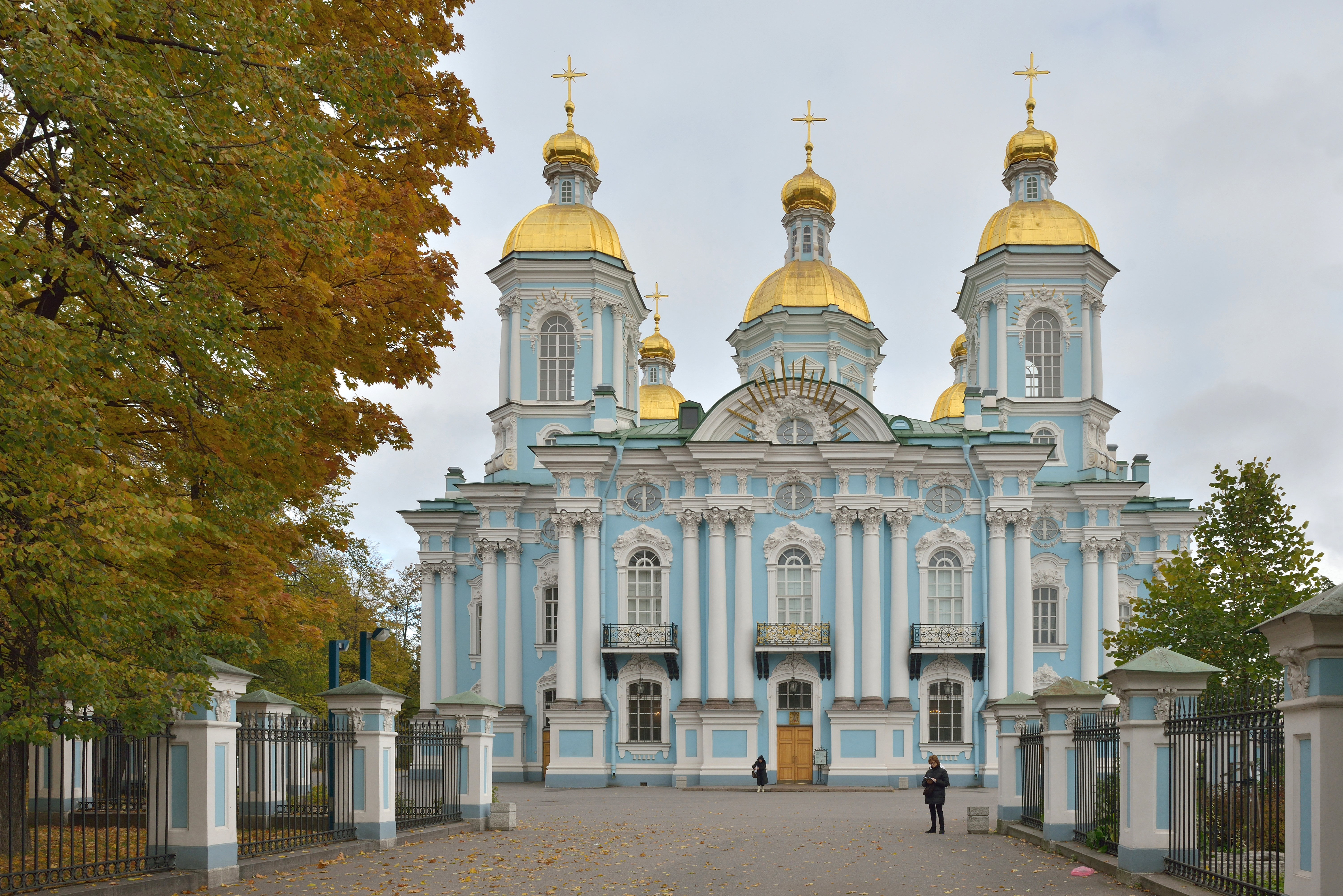 The St. Nicholas Naval Cathedral in Saint Petersburg. View from Krjukov Canal